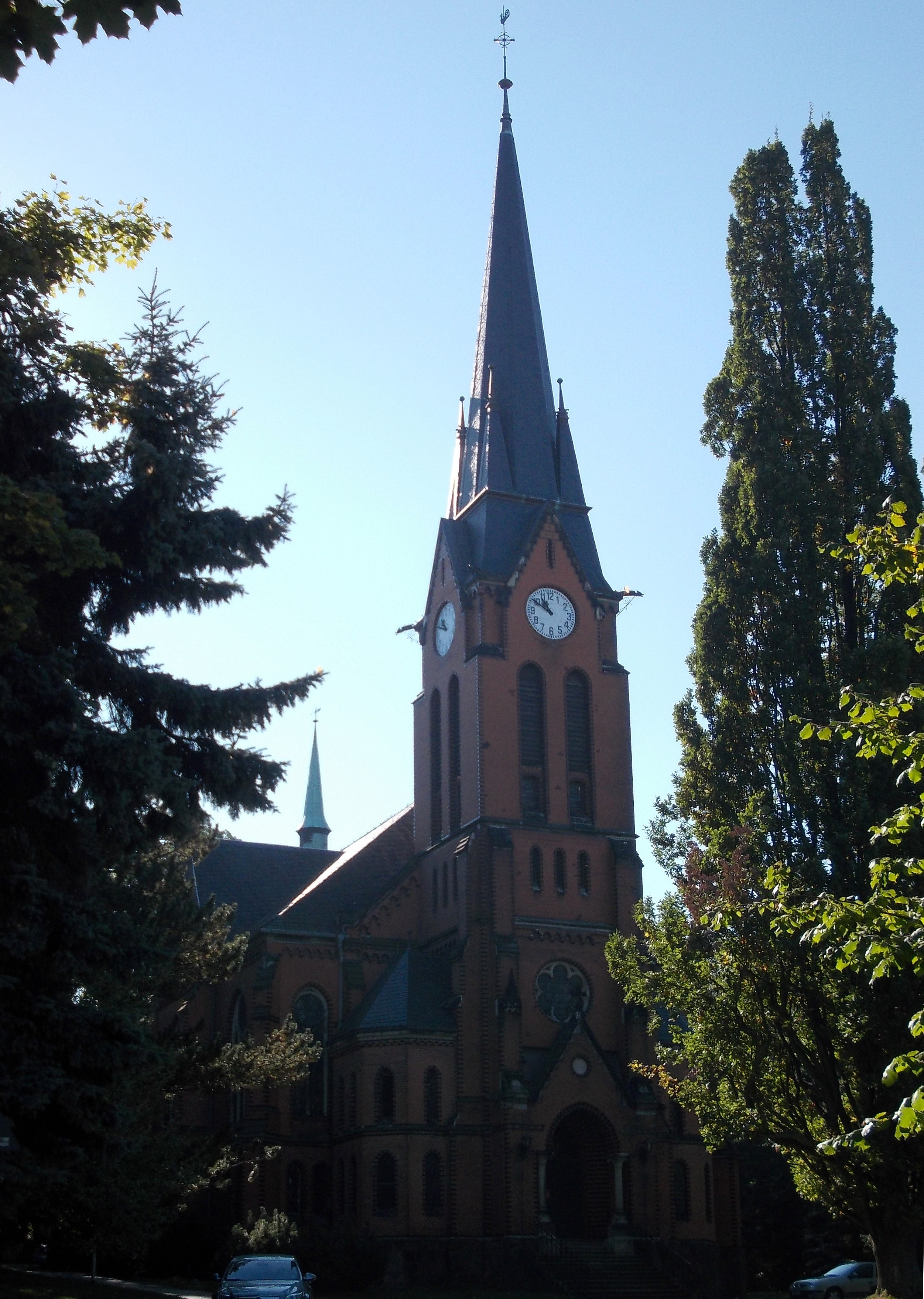 Hartmannsdorf church (Mittelsachsen district, Saxony)